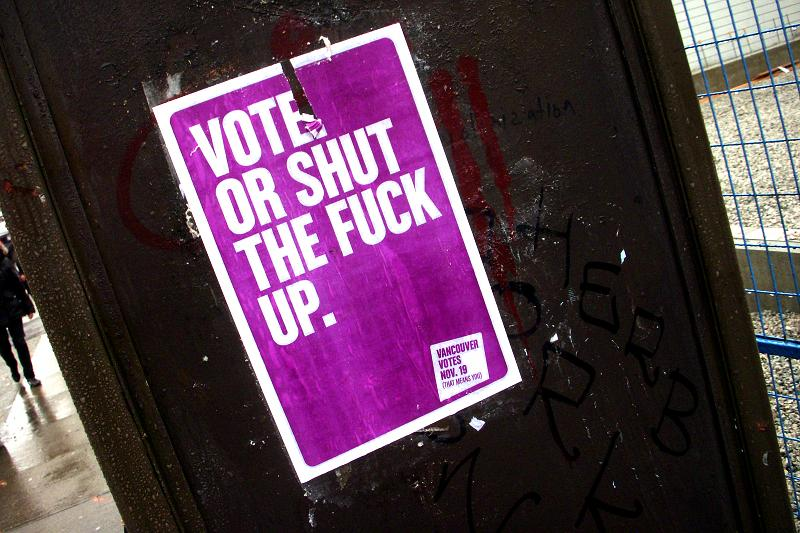 Poster encouraging voter participation in the 2011 municipal elections in Vancouver, British Columbia, Canada, with the text: "Vote or shut the fuck up".